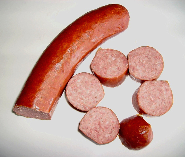 Cabanossi sausage